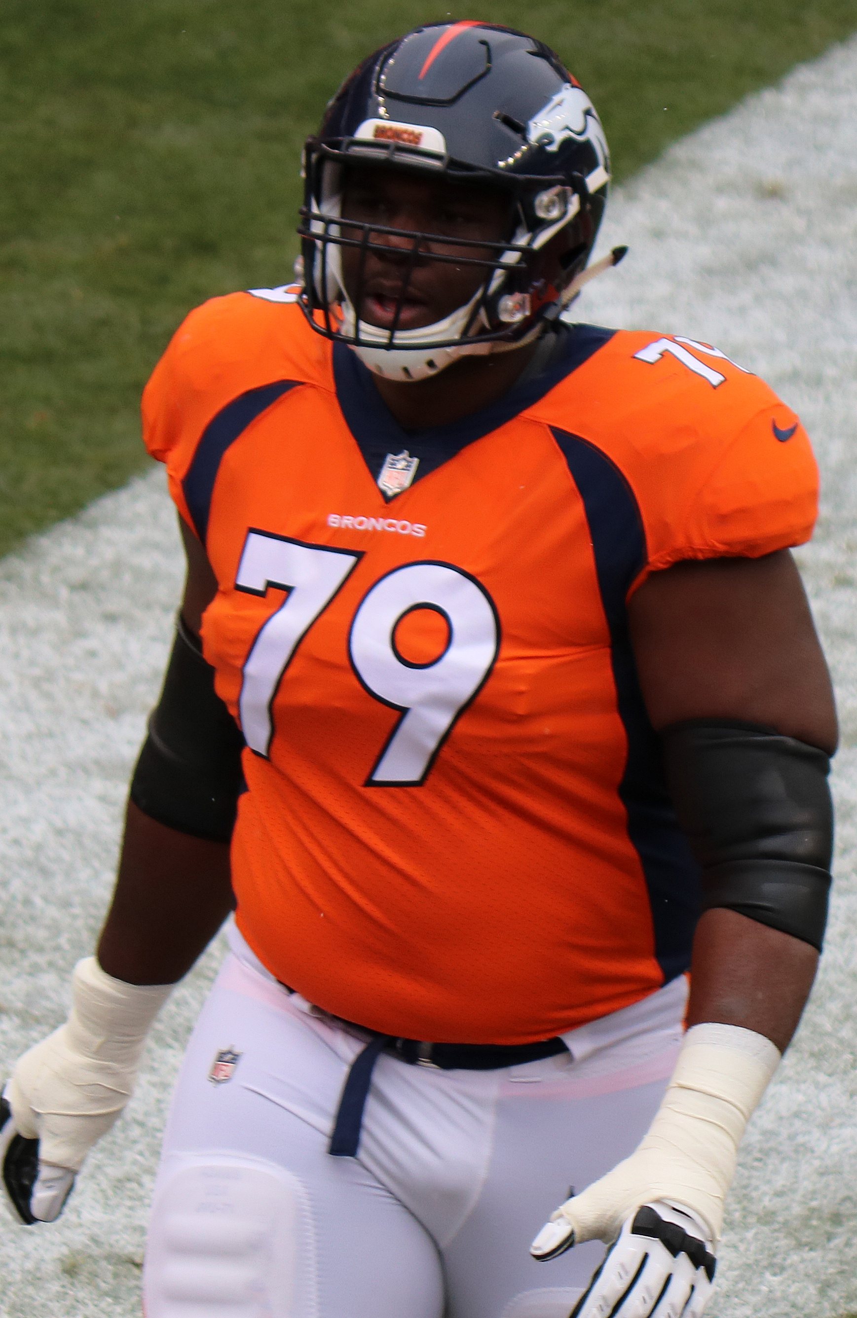 Cyrus Kouandjio, a National Football League player.